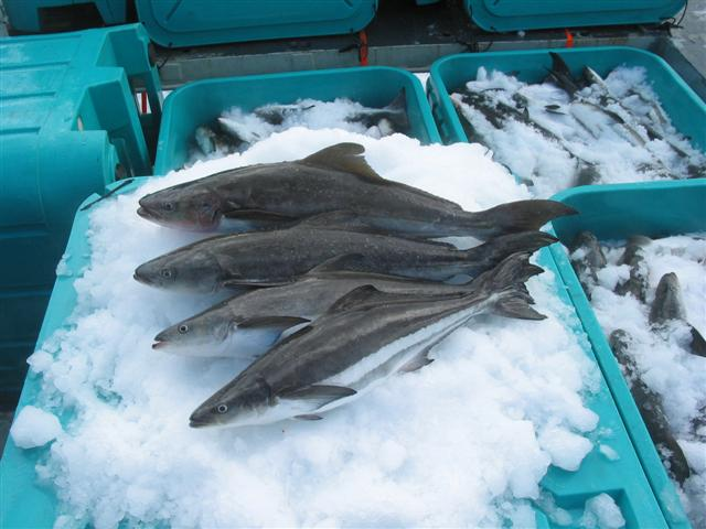 Cobia, Rachycentron canadum, on ice